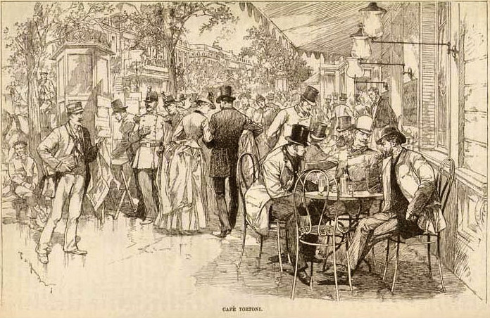 "Café Tortoni"